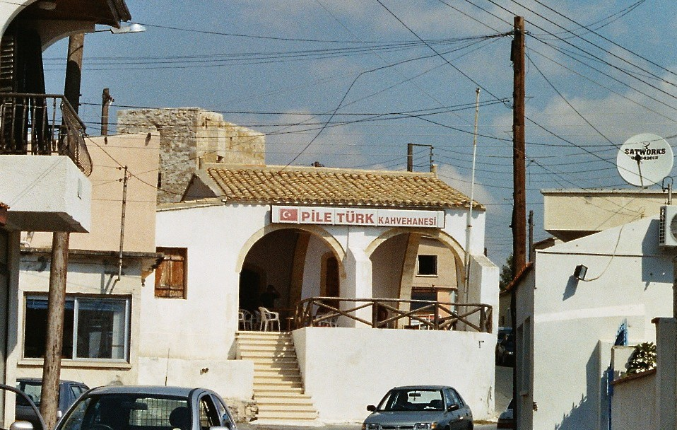 Photographed by Rolf Palmberg